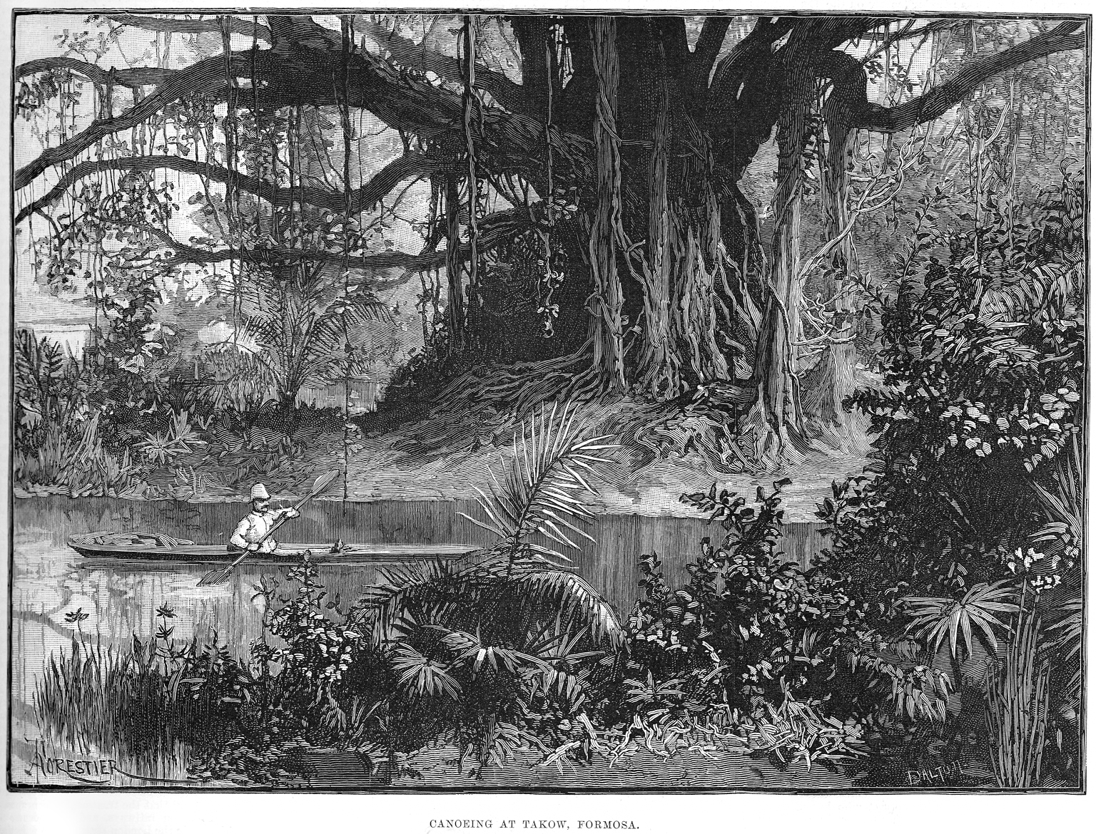 Engraving from sketch by Edmund Hornby Grimani, who lived in Takow (now Kaohsiung, Taiwan) for several months. Originally published on Illustrated London News Vol. 96, No. 2651 (8 February 1890):181.